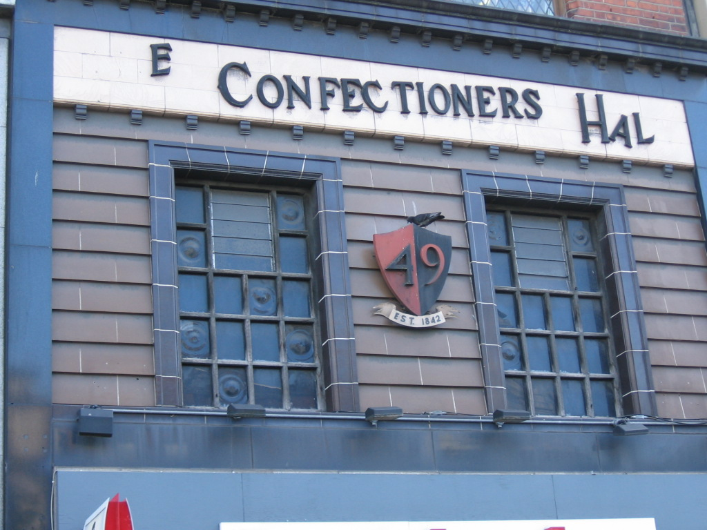 Graham Lemon and Company Confectioners’ Hall at 49 Lower Sackville , ch. 8